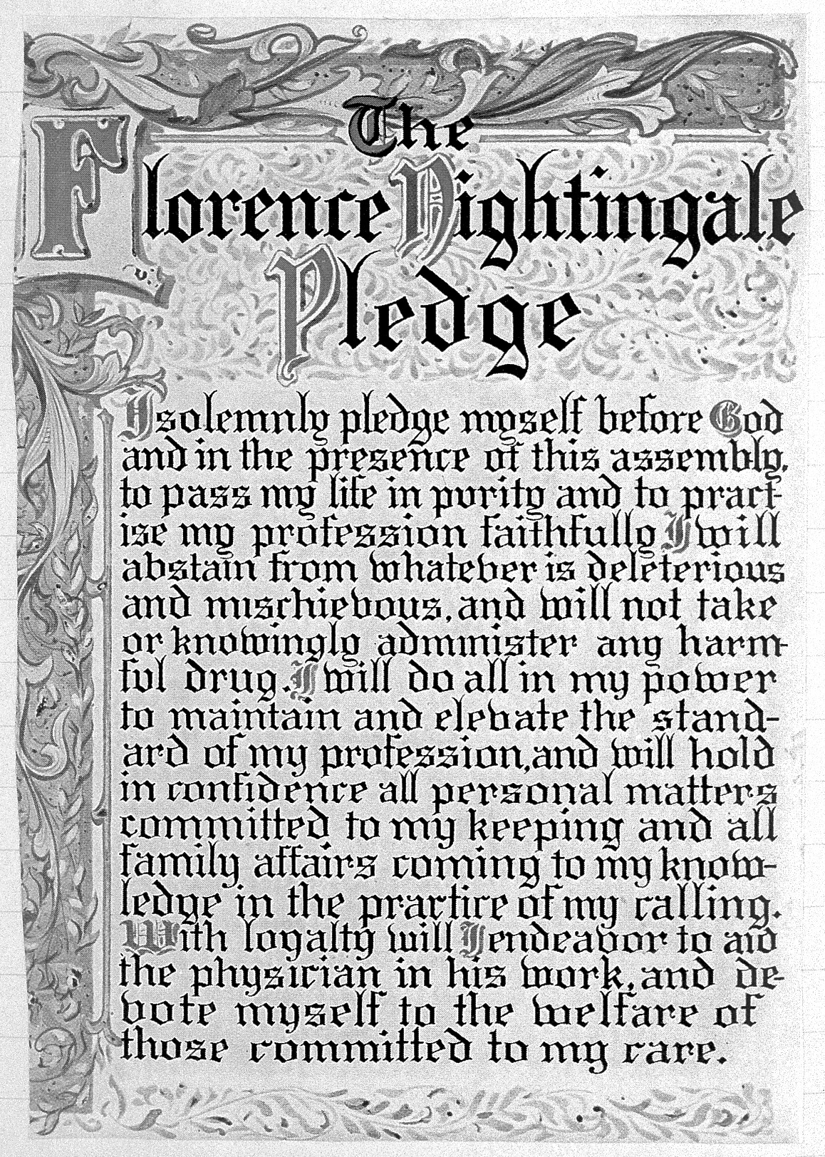 This pledge has to be taken by every Canadian Nurse at the end of her training. Wellcome Images Keywords: Florence Nightingale